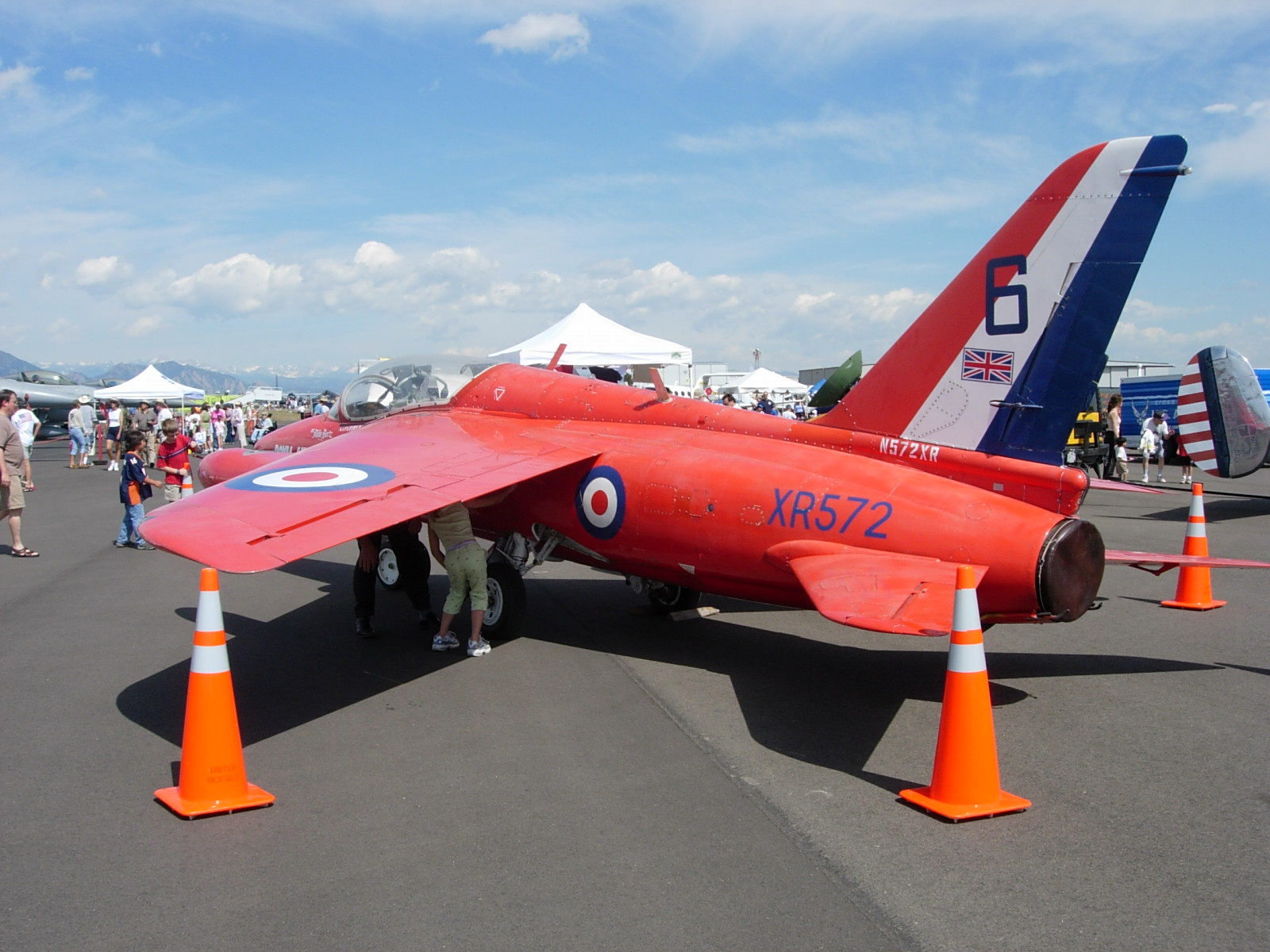 Folland Gnat T1 XR572 / N572XR in the markings of the RAF Red Arrows display team at the Jefferson County (now Rocky Mountain Metropolitan) Airport Open House in June 2006